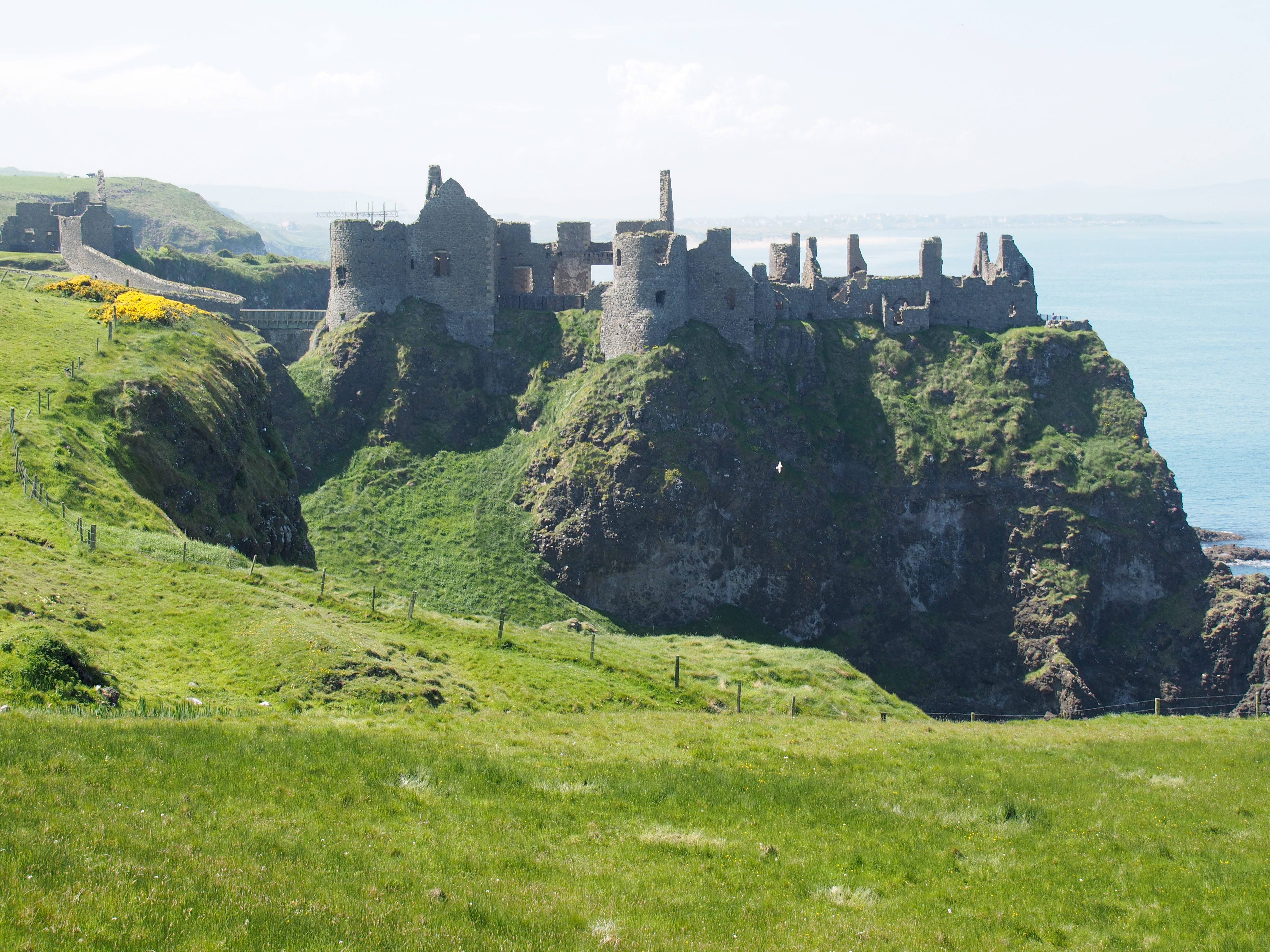 Duncluce Castle, Co. Antrim, Northern Ireland.